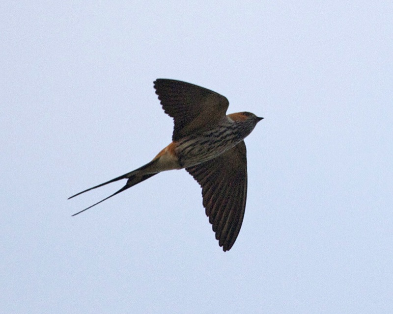 Lesser Striped Swallow at Kwa Madwala Game Park, Mpumalanga, South Africa, on 9 October 2009